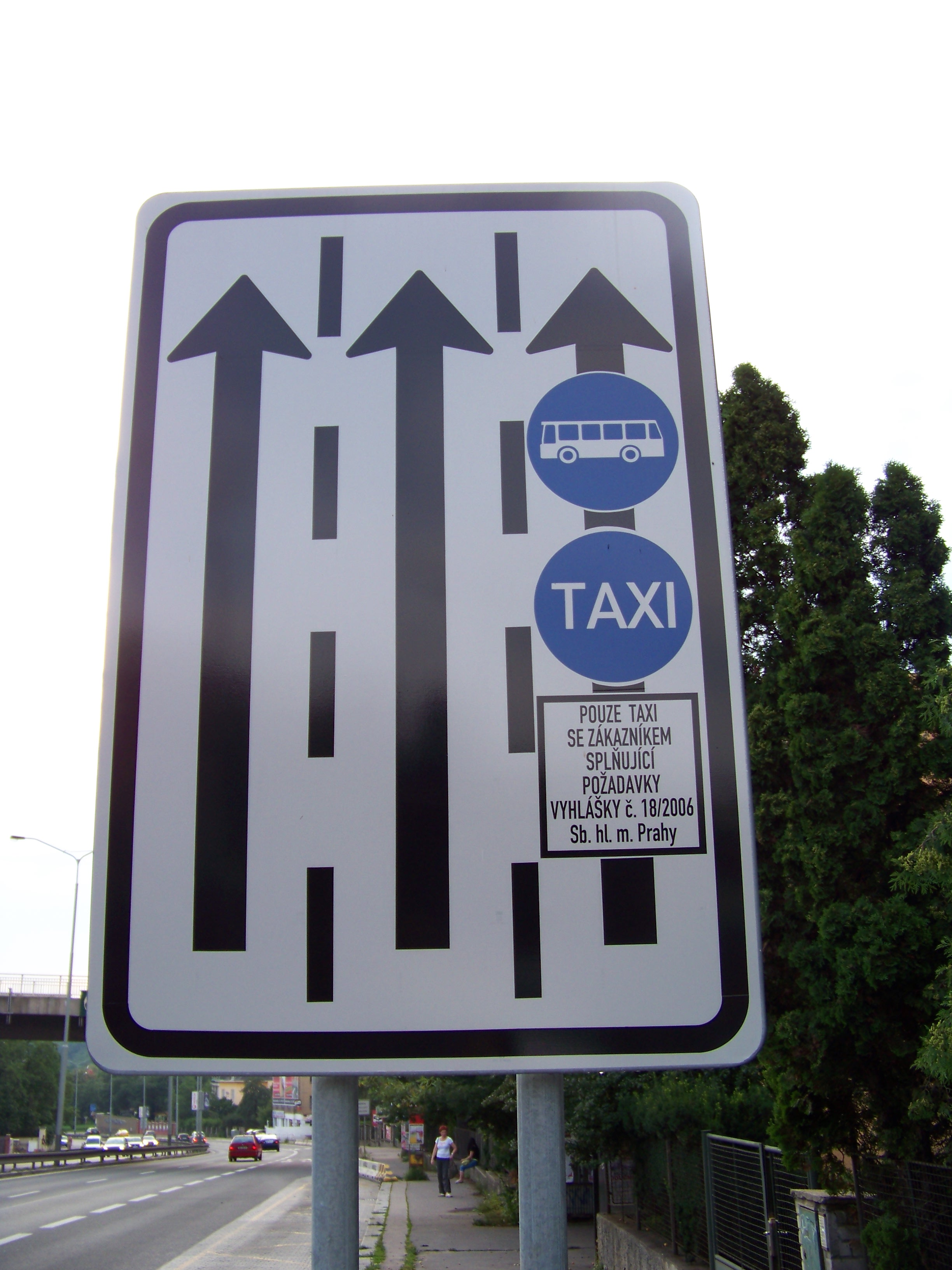 Libeň, Prague, the Czech Republic. V Holešovičkách Street. A sign of bus and taxi lane near the bus stop Rokoska.